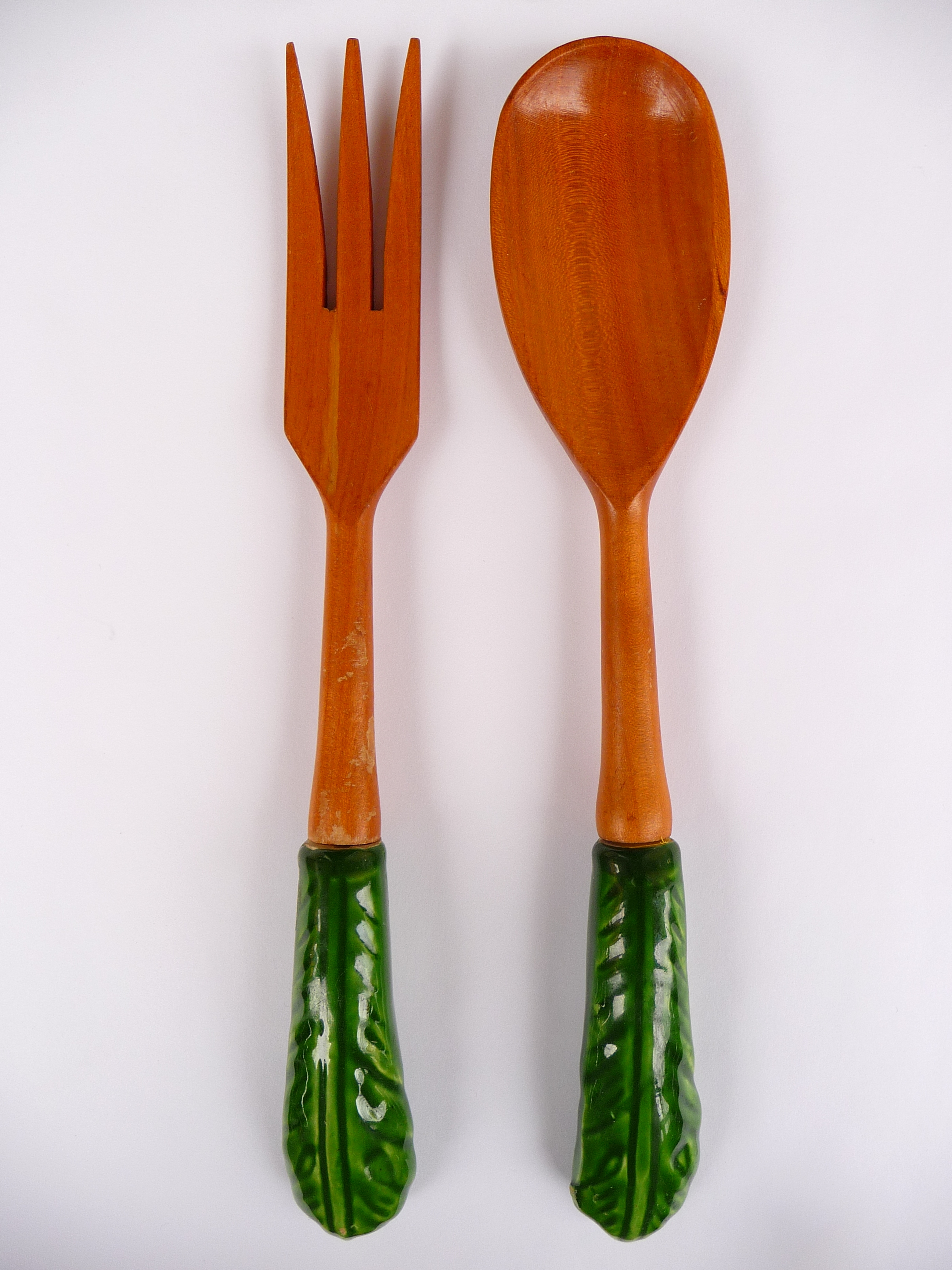 Woodden salad servers with ceramic handles.